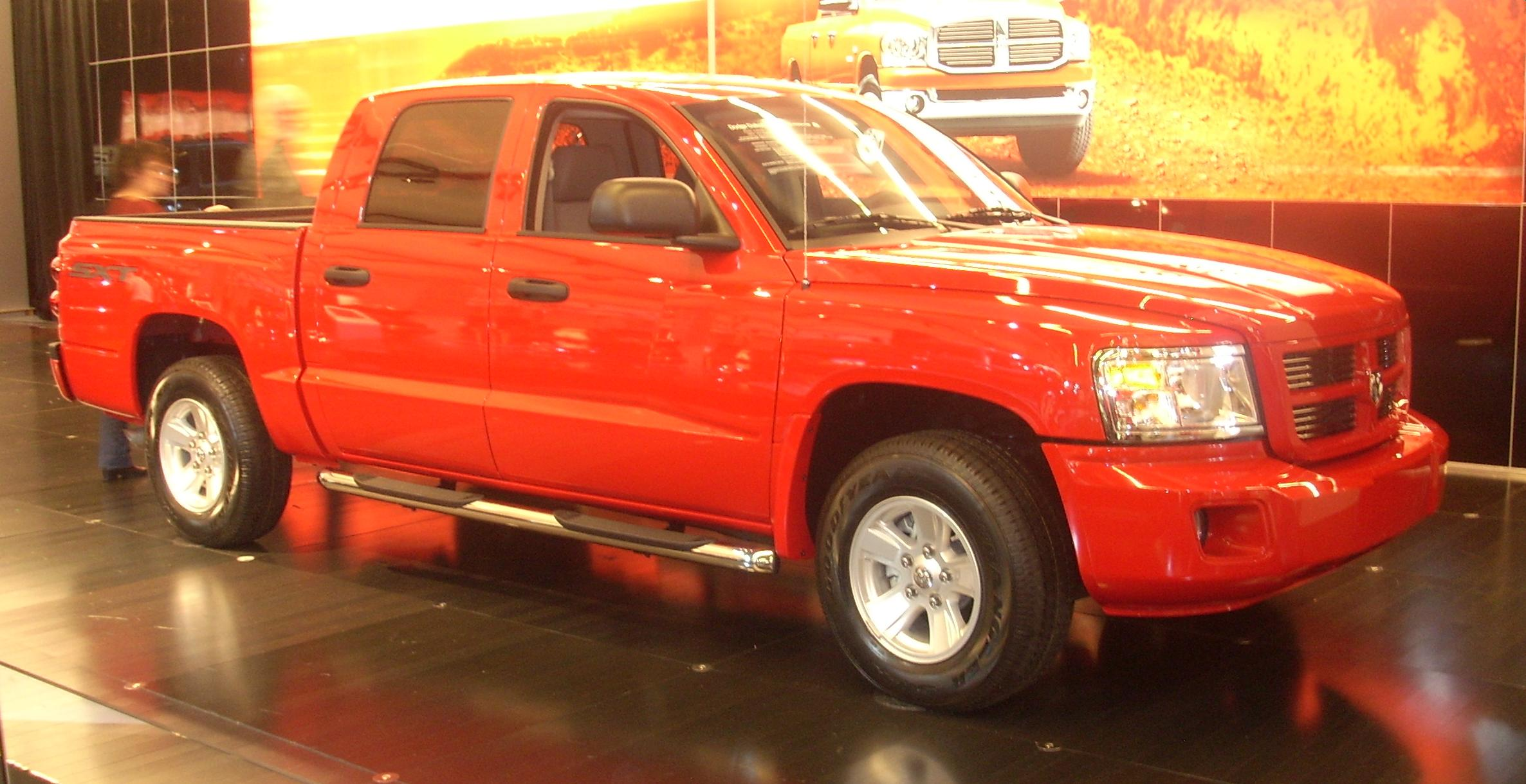 2008 Dodge Dakota photographed at the Montreal Auto Show.